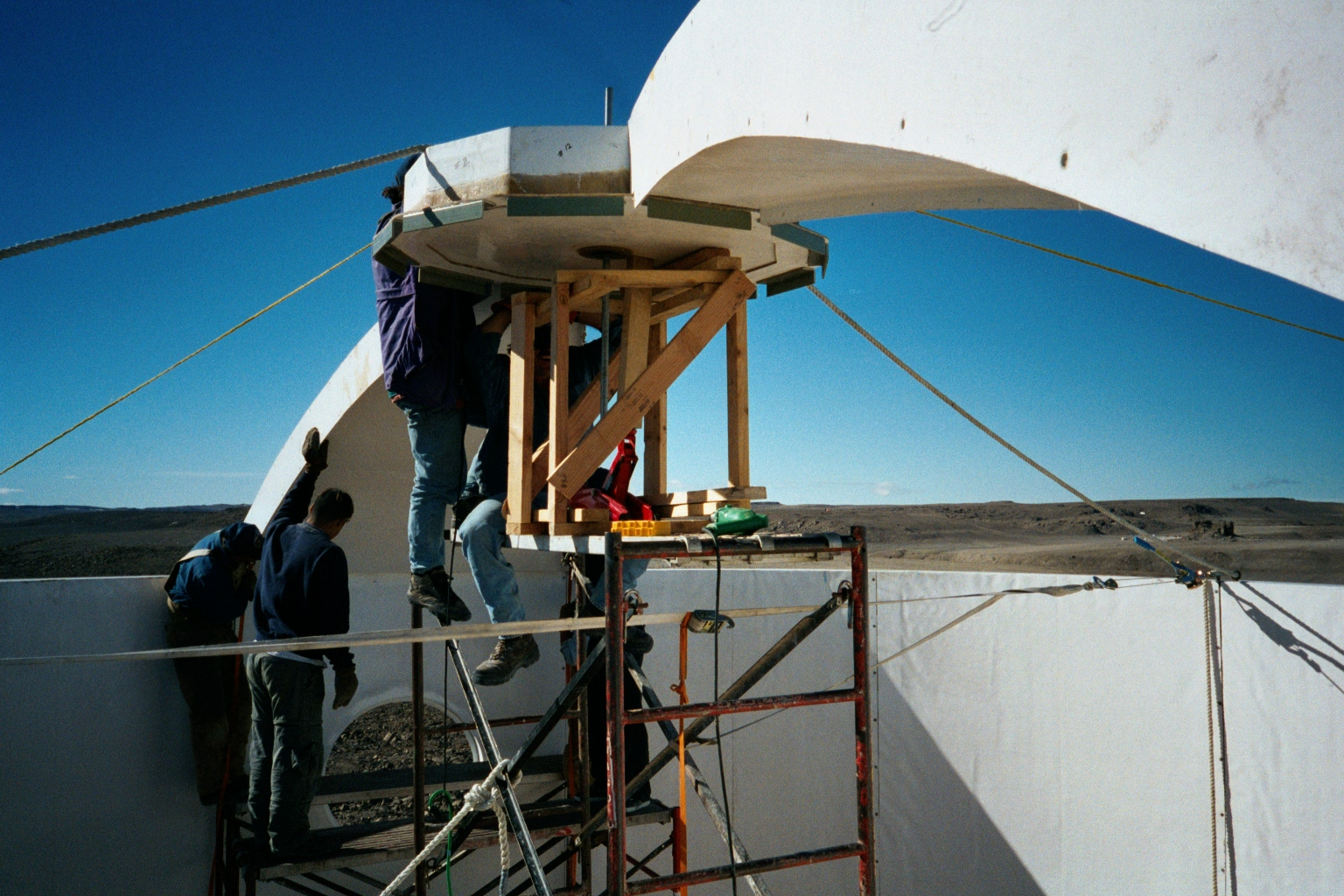 The station's roof dome arch is formed. This is the Flashline Mars Arctic Research Station, on Devon Island in the Canadian Arctic.